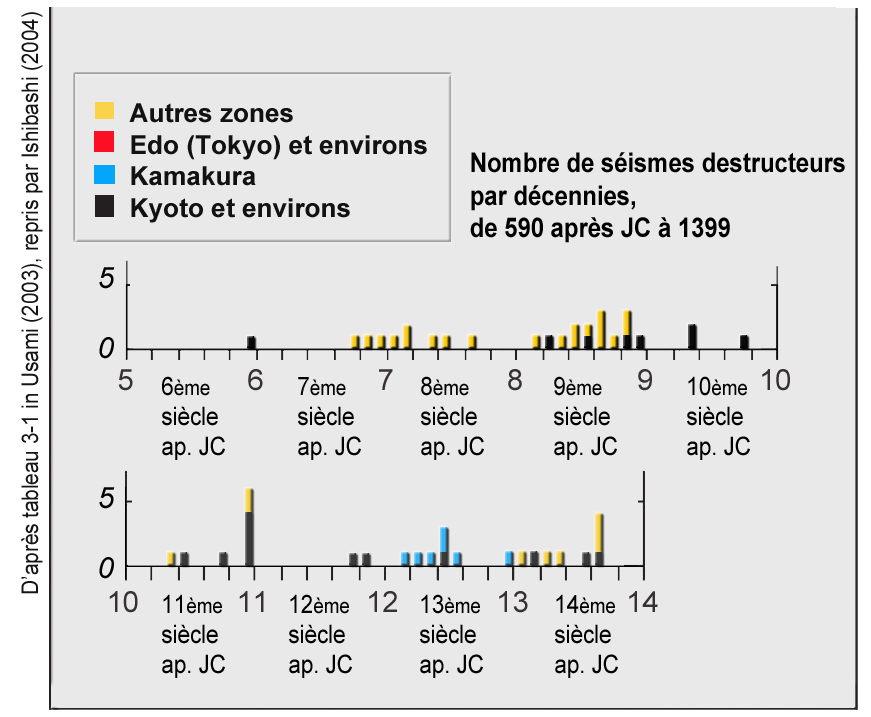 Number of destructive earthquakes (in every ten years), since A.D. 590 through 1399 in Kyoto and vicinity, the Kamakura area, the Edo (Tokyo) area and other areas in Japan based on table 3-1 in Usami (2003) ; from Katsuhiko Ishibashi Status of historical seismology in Japan ; ANNALS OF GEOPHYSICS, VOL. 47, N. 2/3, April/June 2004.